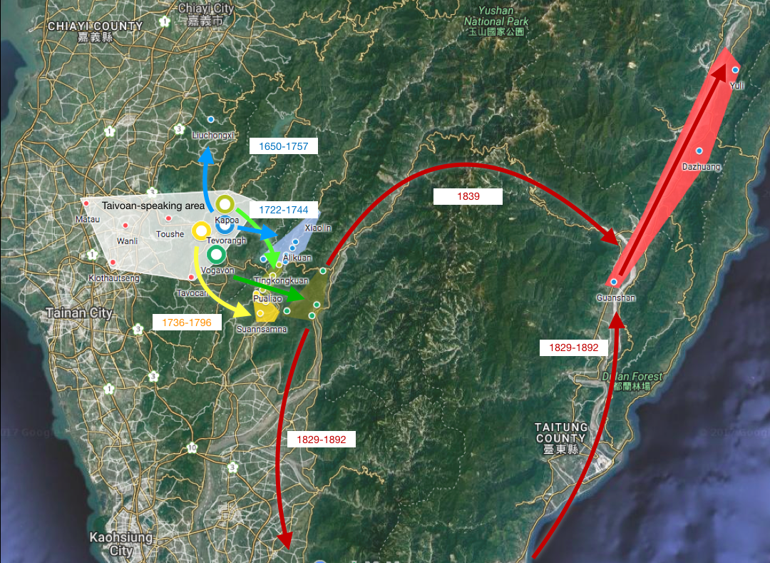 A map of the migration of indigenous Taivoan people in Southern Taiwan. Reference: 日光小林社區發展協會（2017）。《種回小林村的記憶》。高雄：高雄市杉林區日光小林社區發展協會。 林江義（2004）。《台東海岸加走灣馬卡道族的研究》（碩士論文）。台北：國立政治大學民族研究所。 胡家瑜（2014）。《大武壠平埔的衣飾收藏與刺繡工藝》。高雄：高雄市立歷史博物館。